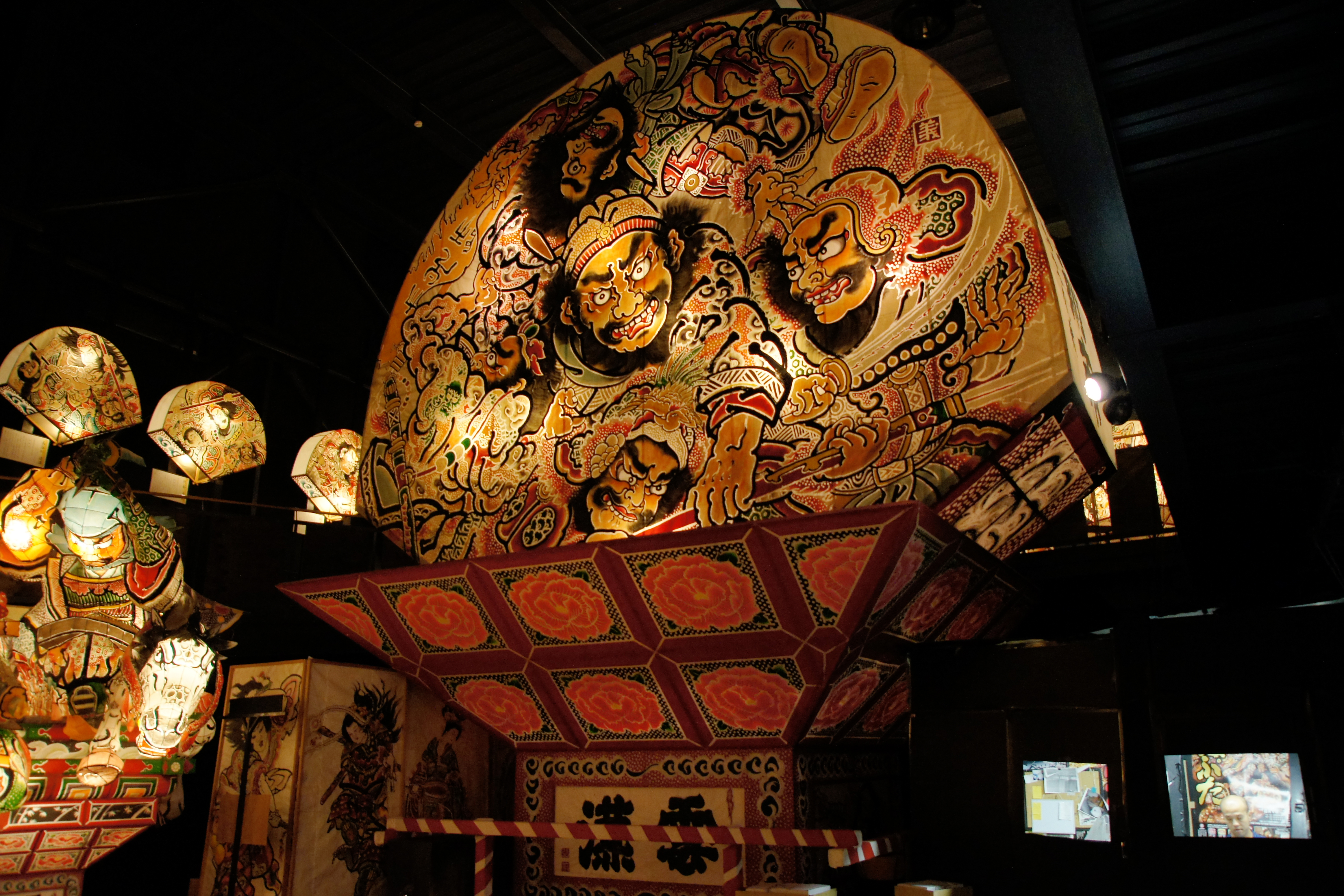 Tsugaruhan_Neputamura in Hirosaki, Aomori prefecture, Japan